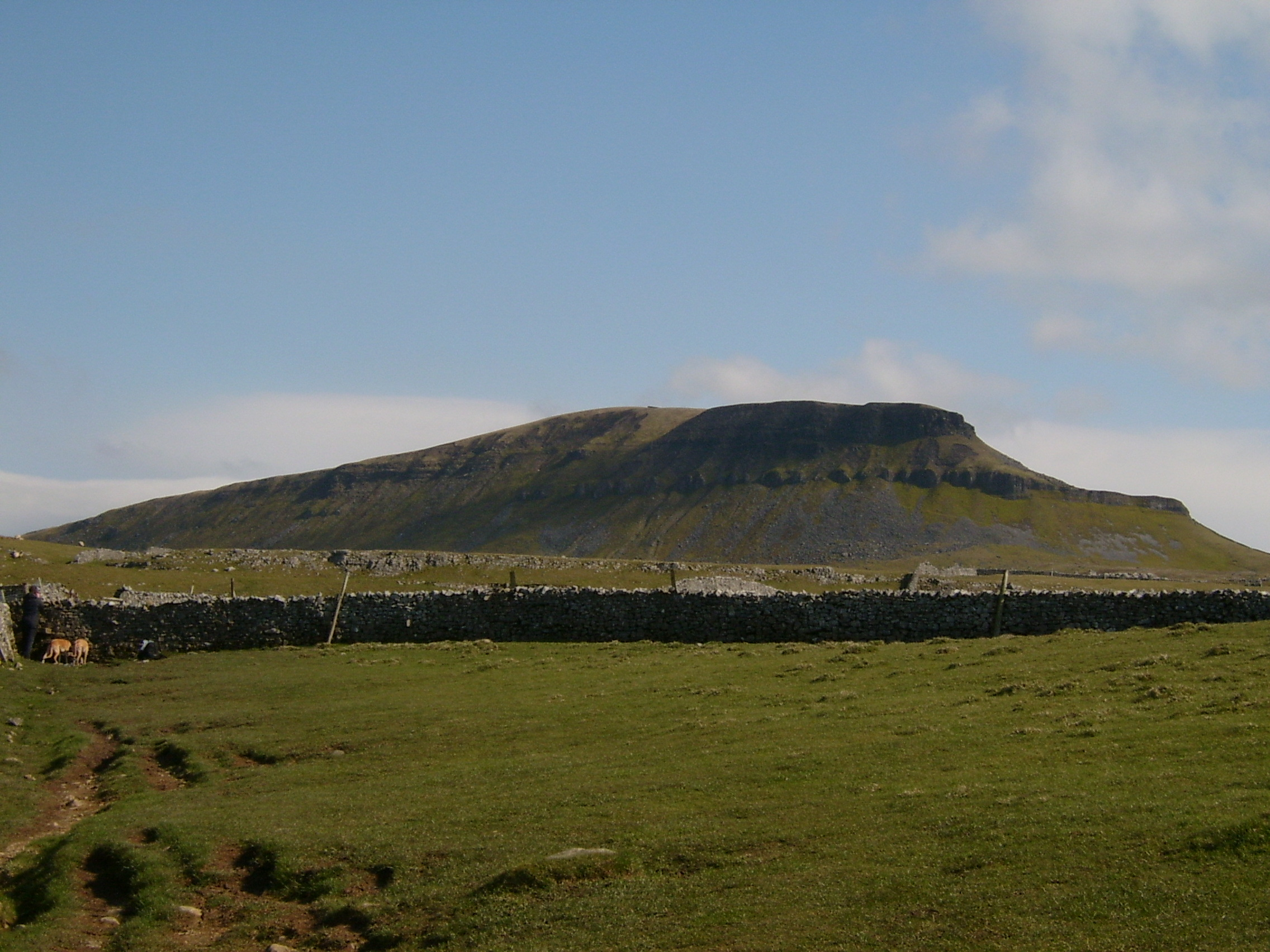 View of Pen-y-ghent, as seen from the ascent from Horton in Ribblesdale